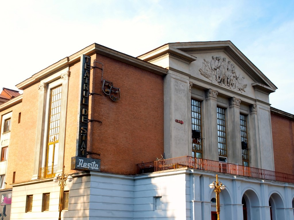 community centre in Reșița/Reschitza, Romania